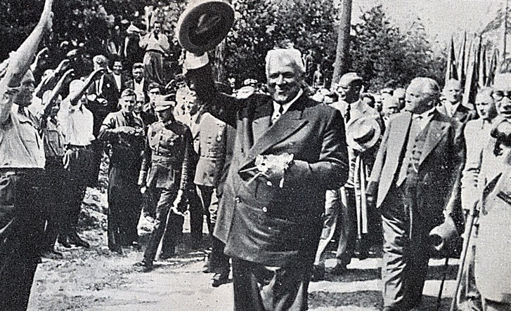 President of Latvia Karlis Ulmanis visiting his supporters, Photo by PAT ( Polish Press Agency before 1939)